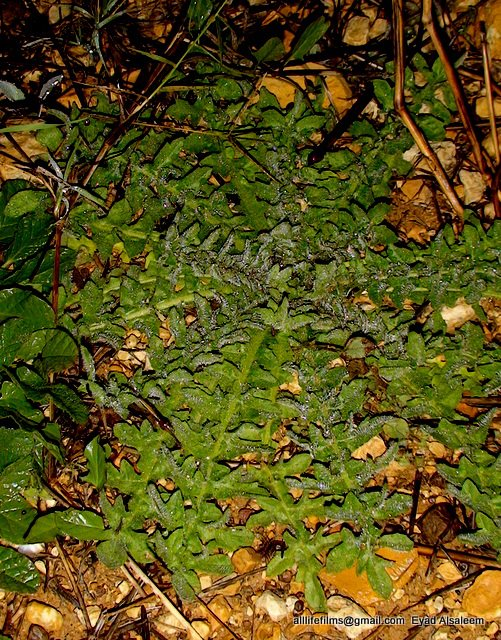 نباتات برية سورية تؤكل